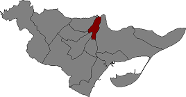 Location of Masdenverge in Montsià